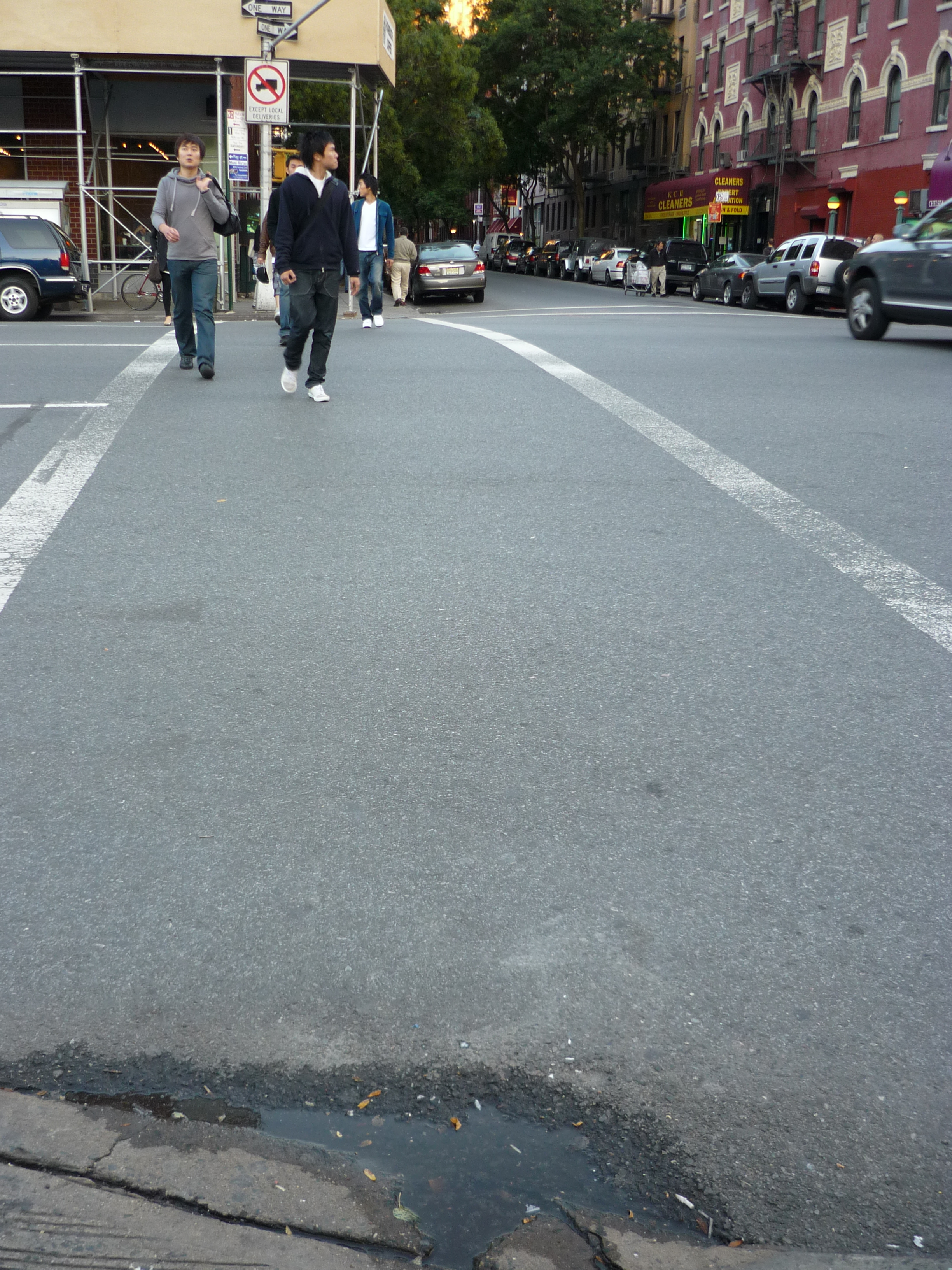 This photo is of Wikis Take Manhattan goal code S6, Crosswalk-Standard, 2 parallel lines.